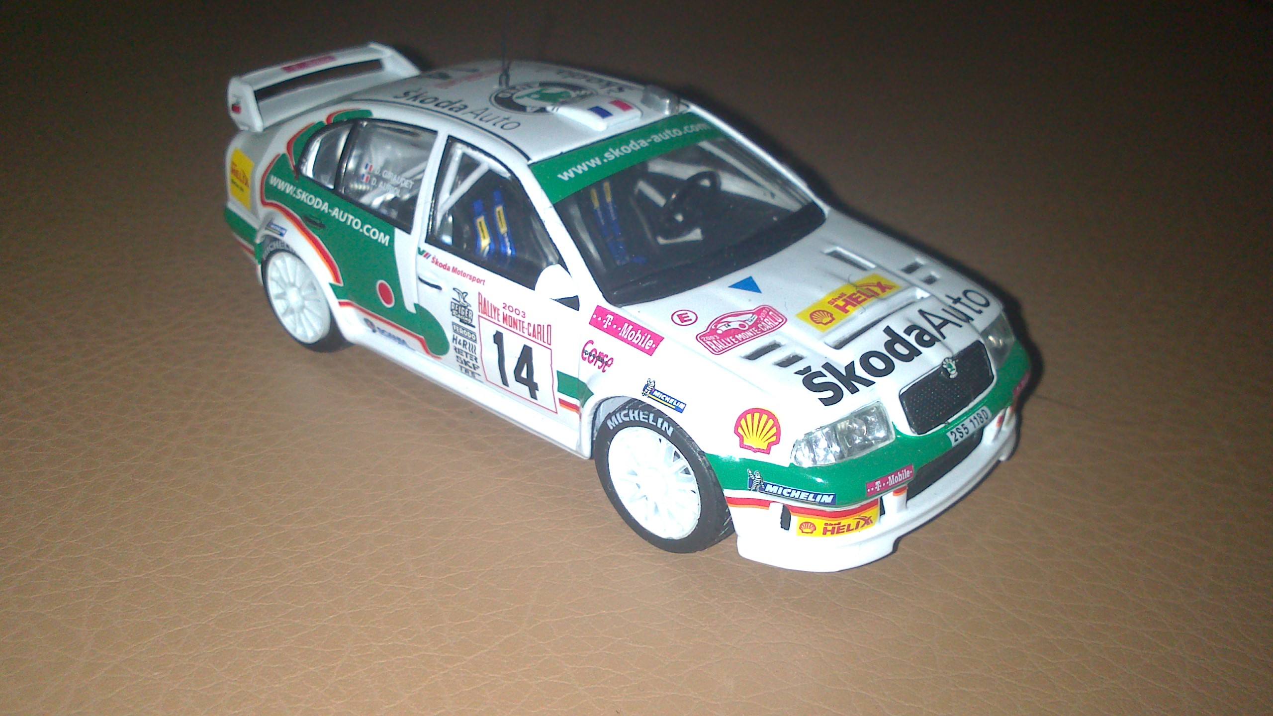 Škoda Octavia WRC Evo3 model - Auriol/Giraudet, Rally Monte Carlo 2003